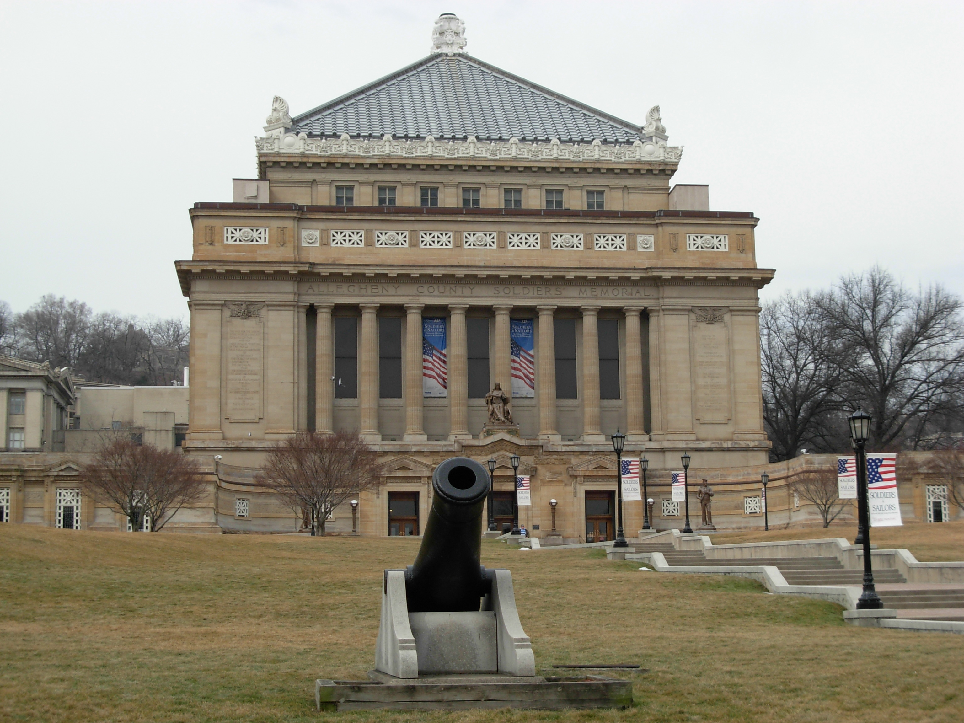 Soldiers and Sailors Memorial Hall Photo by myself.